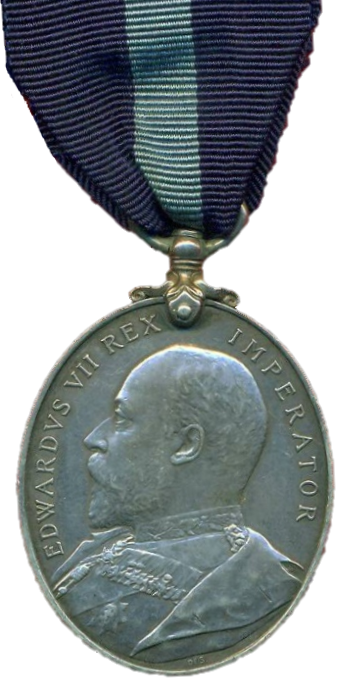 British award for 15 years service in the Special Reserve, obverse awarded 1908-11